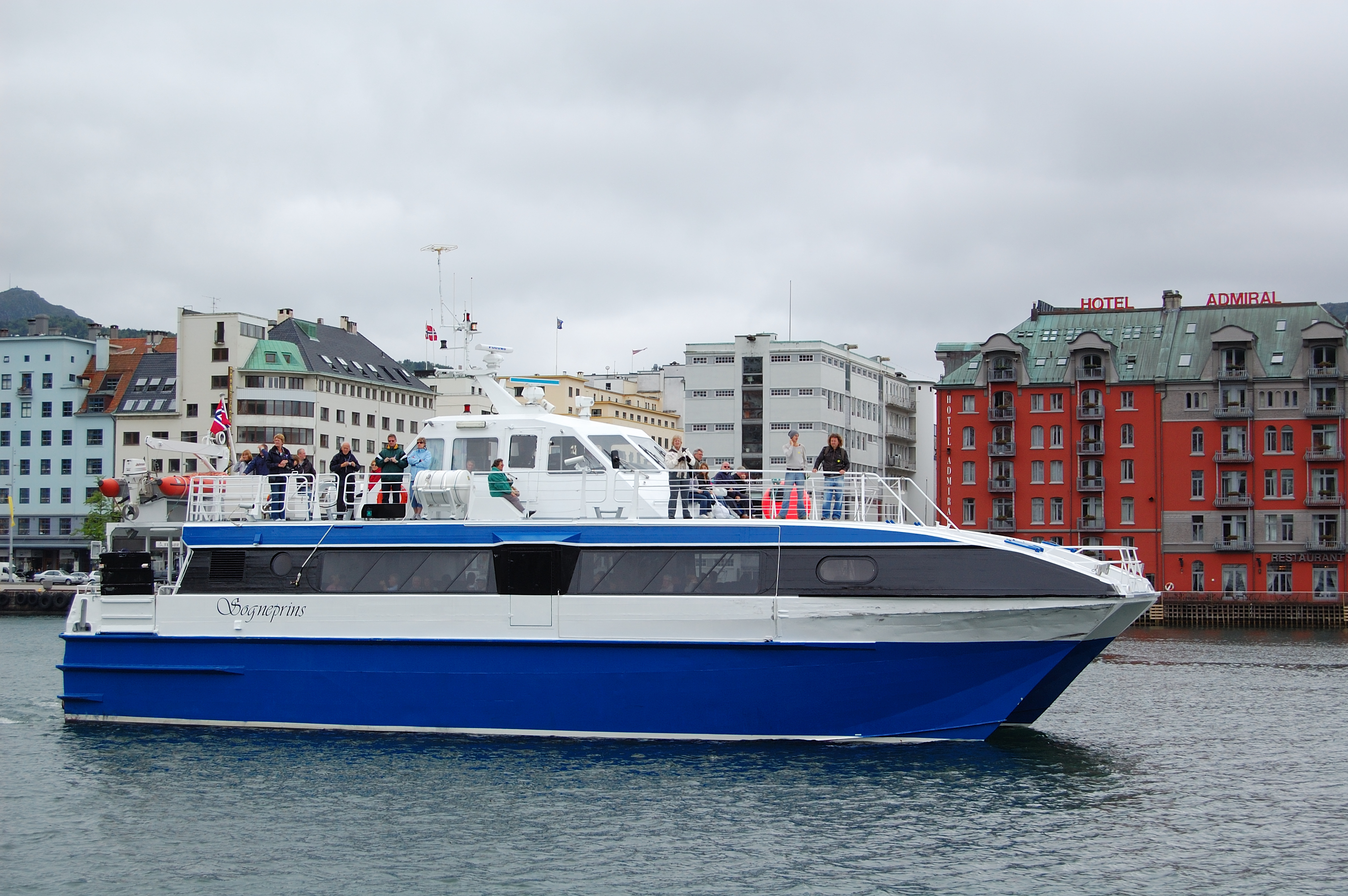 Norwegian ferry Sogneprins (IMO 9018816) in Bergen.